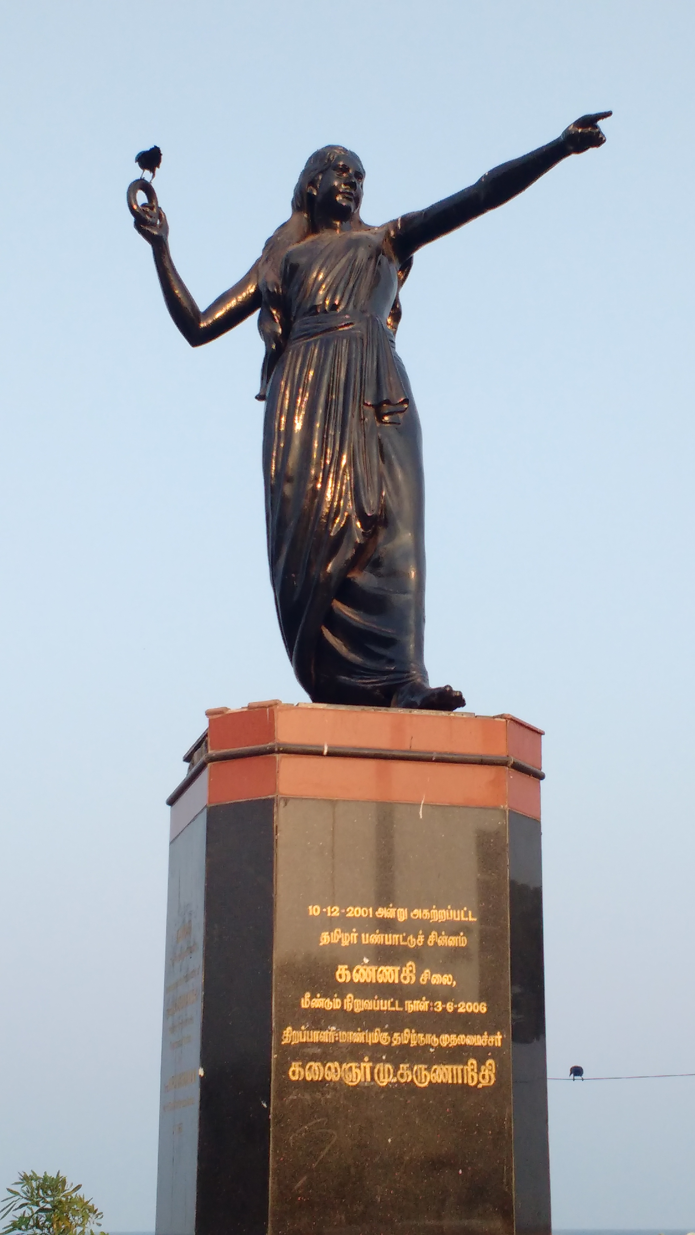 This is the statue of Kannagi at the Marina Beach in Chennai. Kannagi is one of the revolutionary characters who is believed to have burned Madurai in Silapathikaram